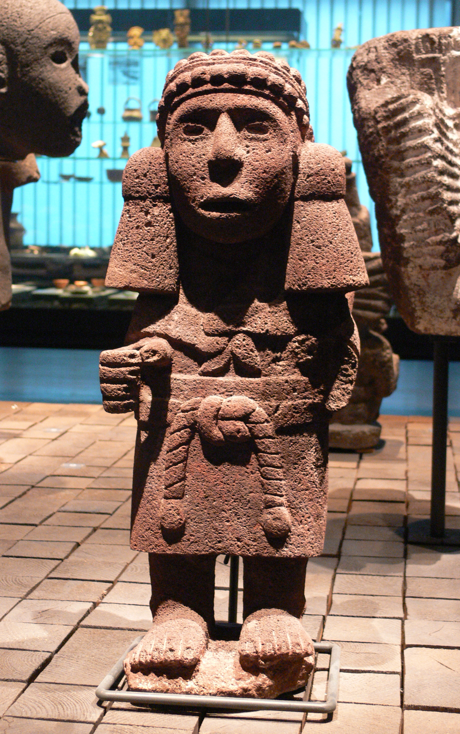 Water goddess Chalchiuhtlicue; Aztec stone sculpture; Ethnological Museum, Berlin, Germany